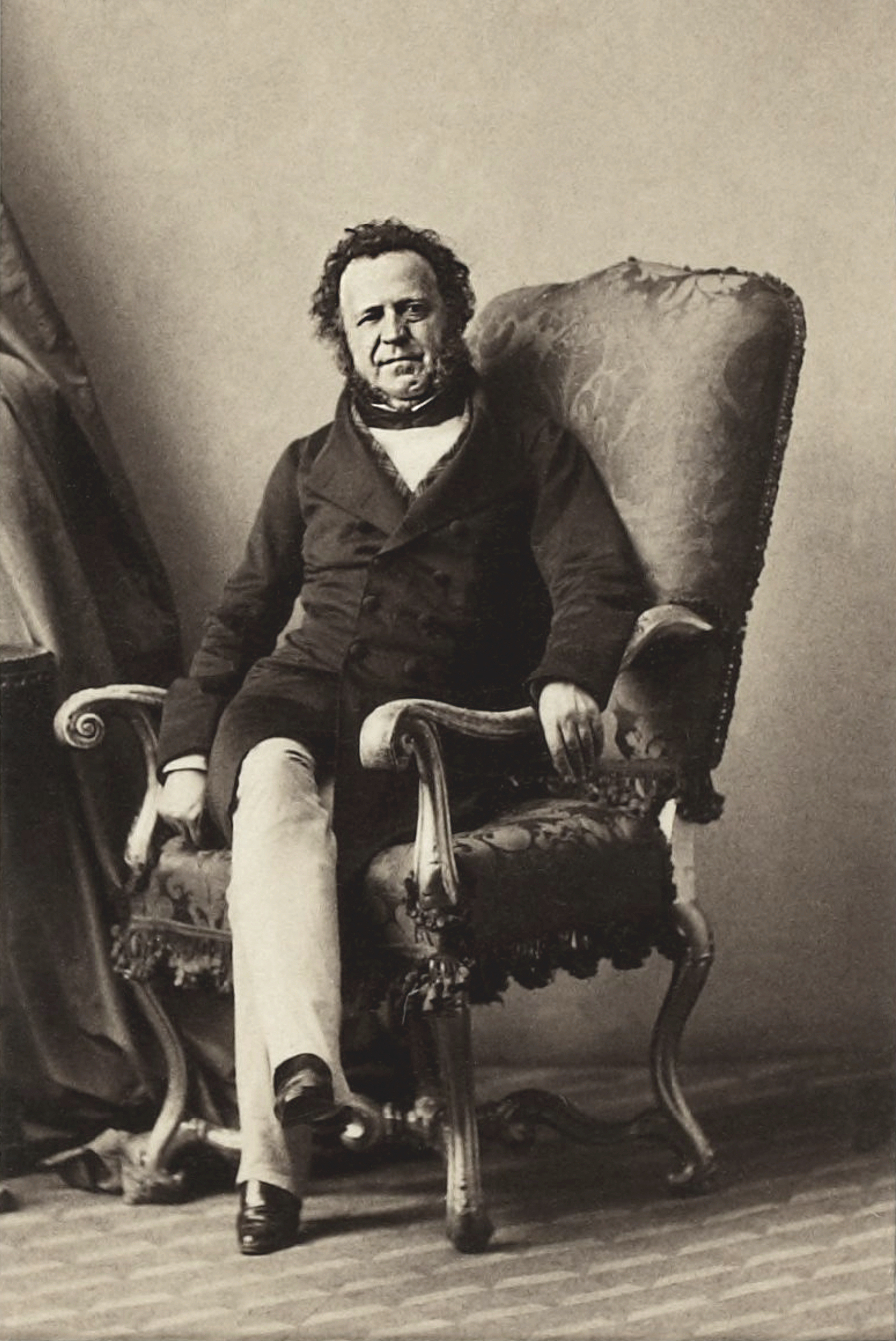 Paul, 6th duc de Noailles (1802-1885), french writer and historian.